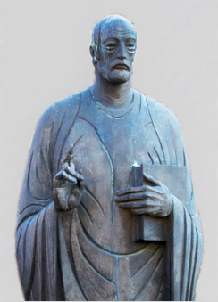 Ioane Petritsi, Georgian philosopher